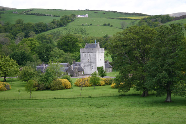 Kames Castle, Isle of Bute, Scotland.